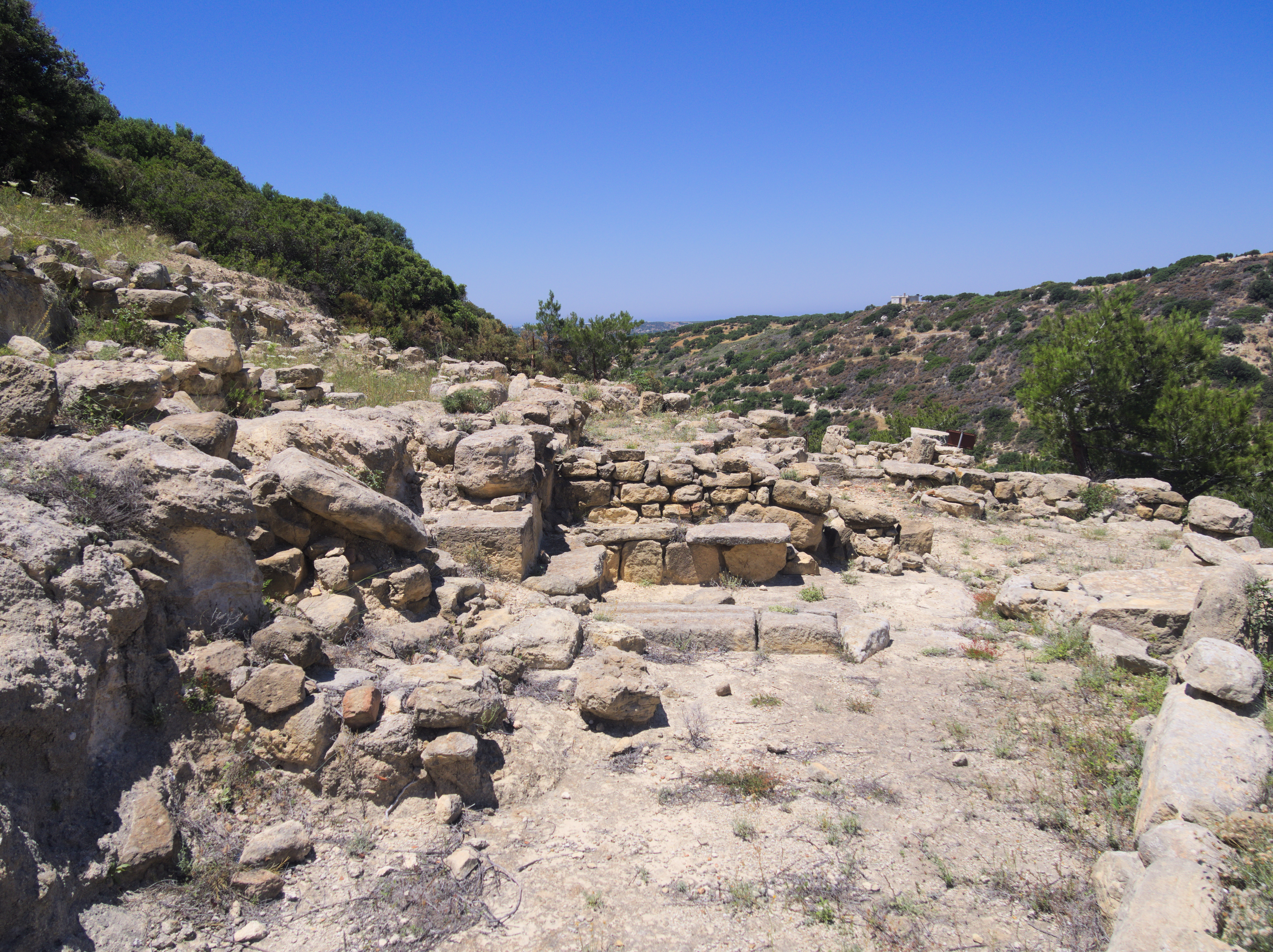 The minoan villa of Zou, Crete.